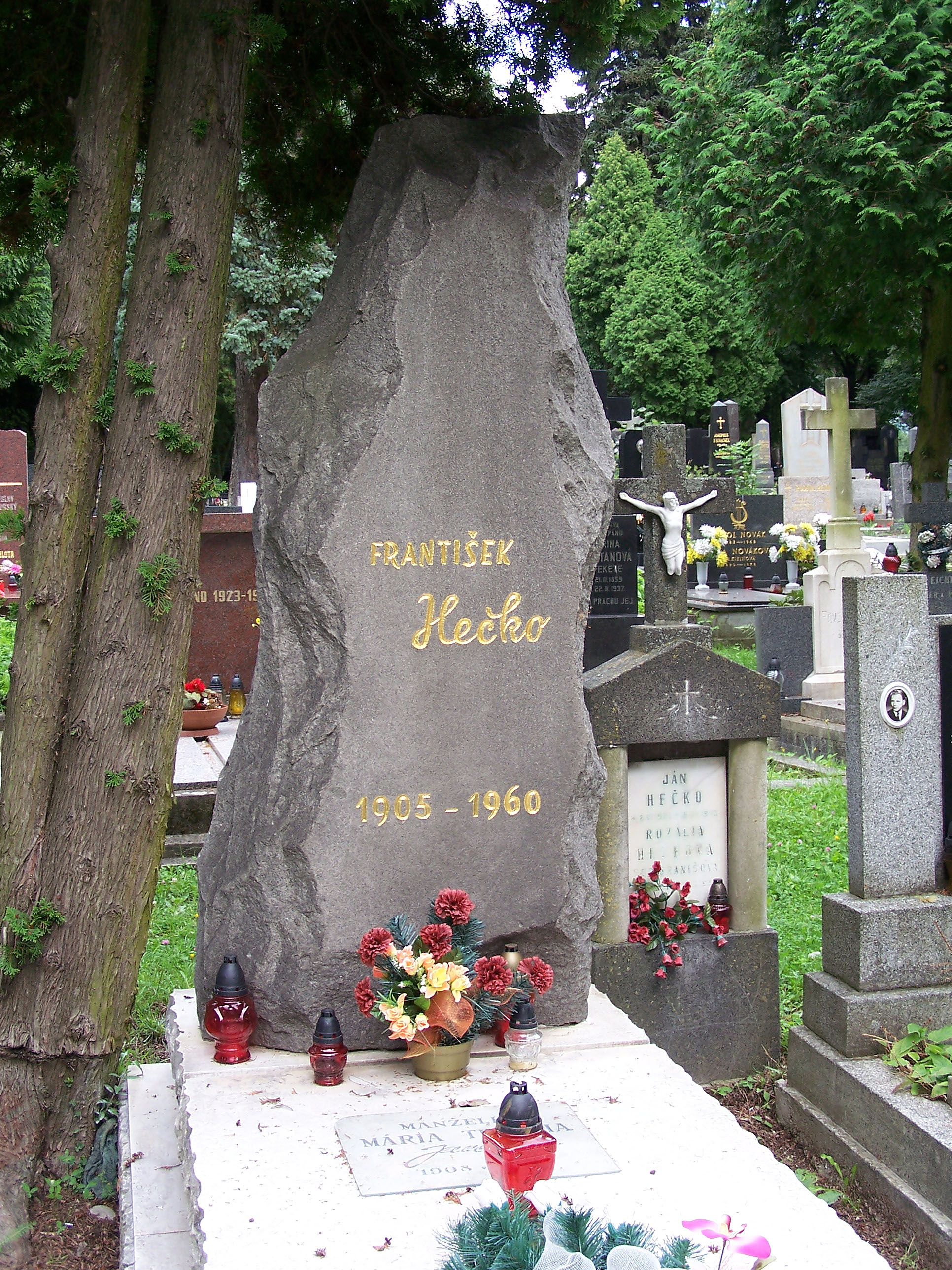 Grave of František Hečko at the National Cemetery in Martin, Slovakia